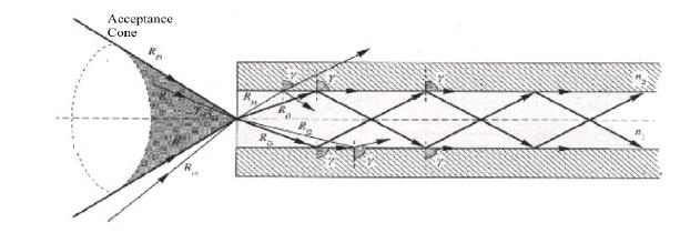 Numerical aperture definition and acceptance cone for an optical fiber